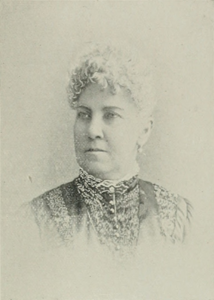 image from File:A woman of the century.djvu published 1893